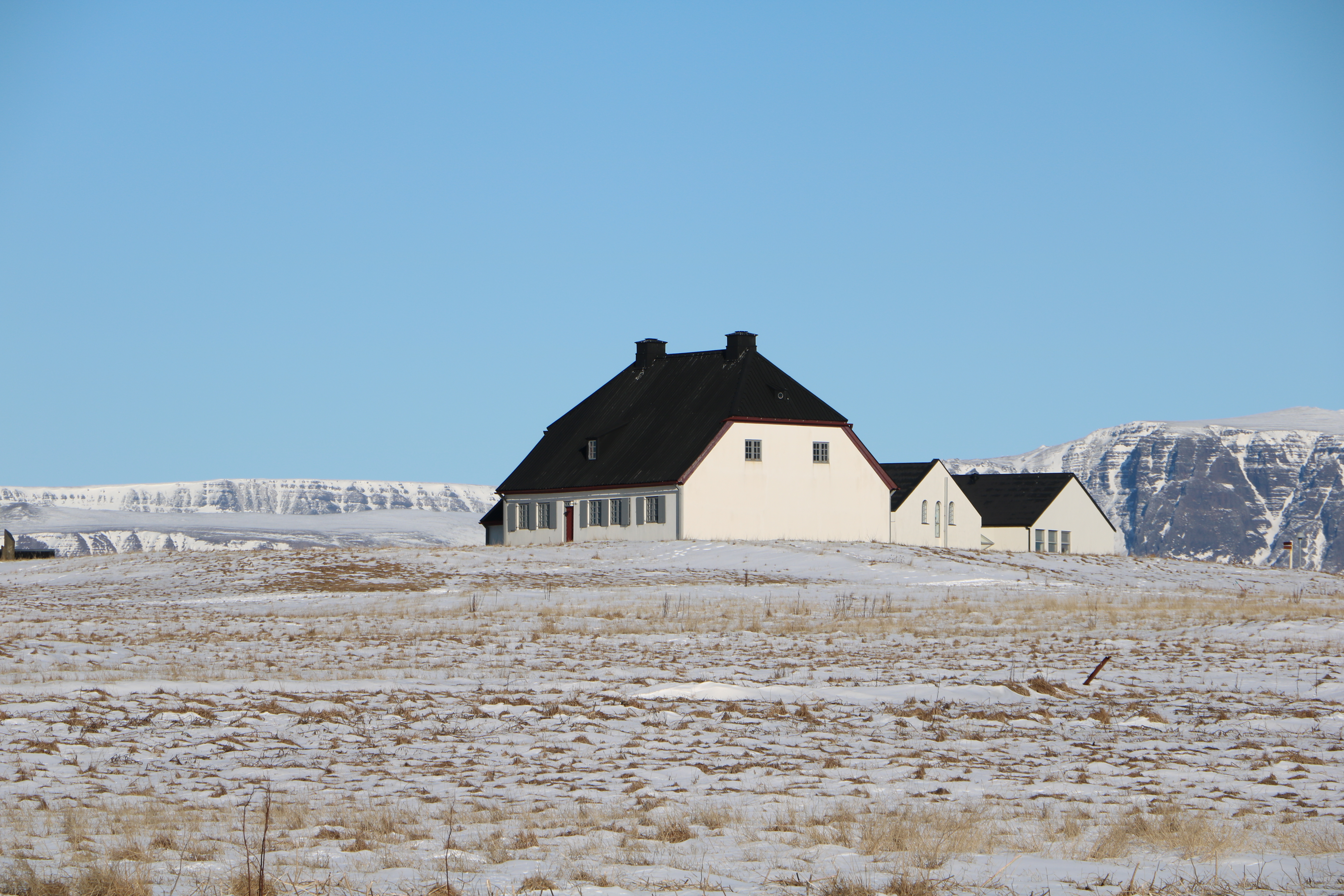 The Bjarni Pálsson's house in Seltjarnarnes.